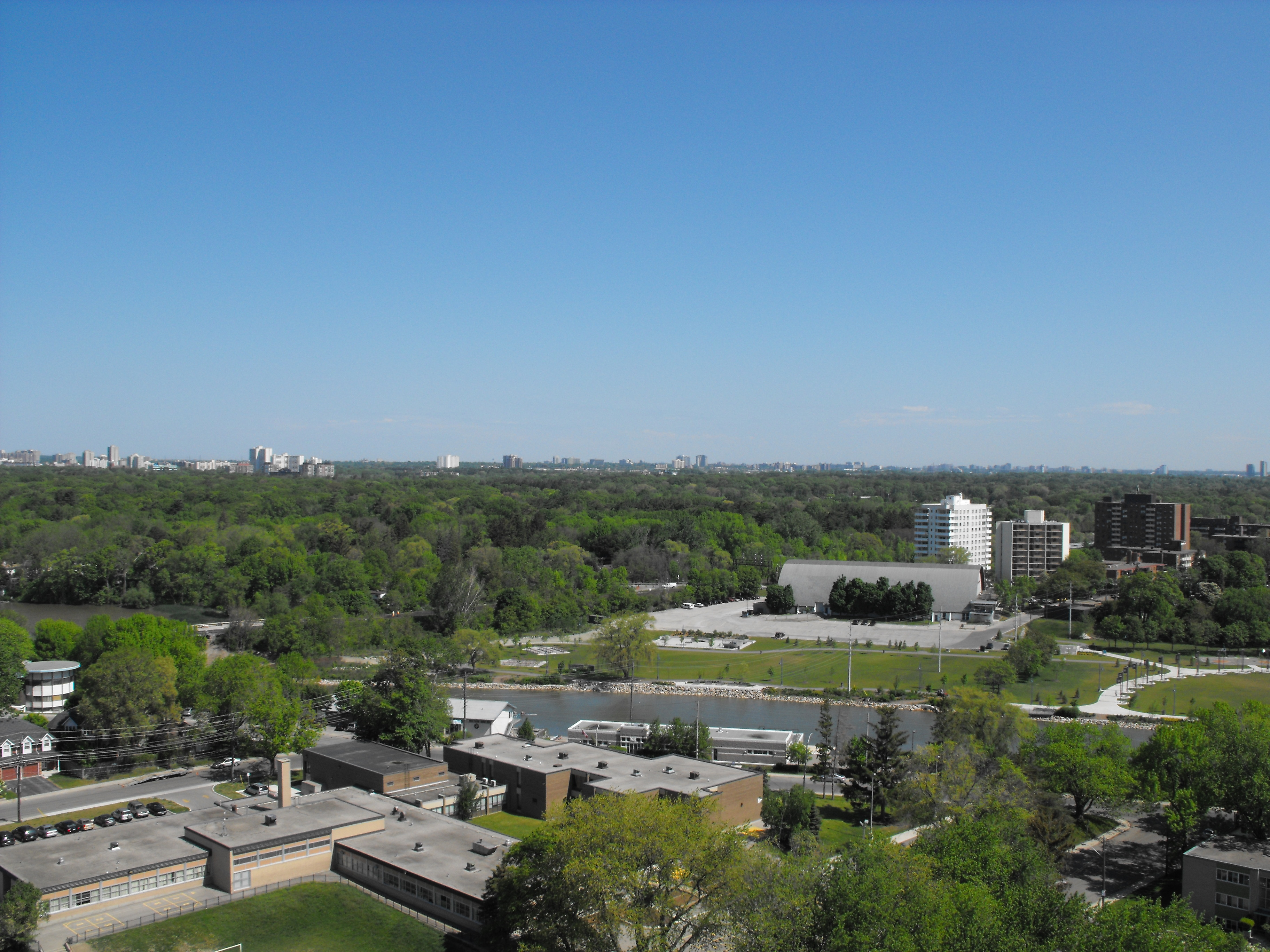 The Port Credit Arena on the east bank of the Credit River in Ontario, Canada. Visible on the west bank is the Don Rowing Club.